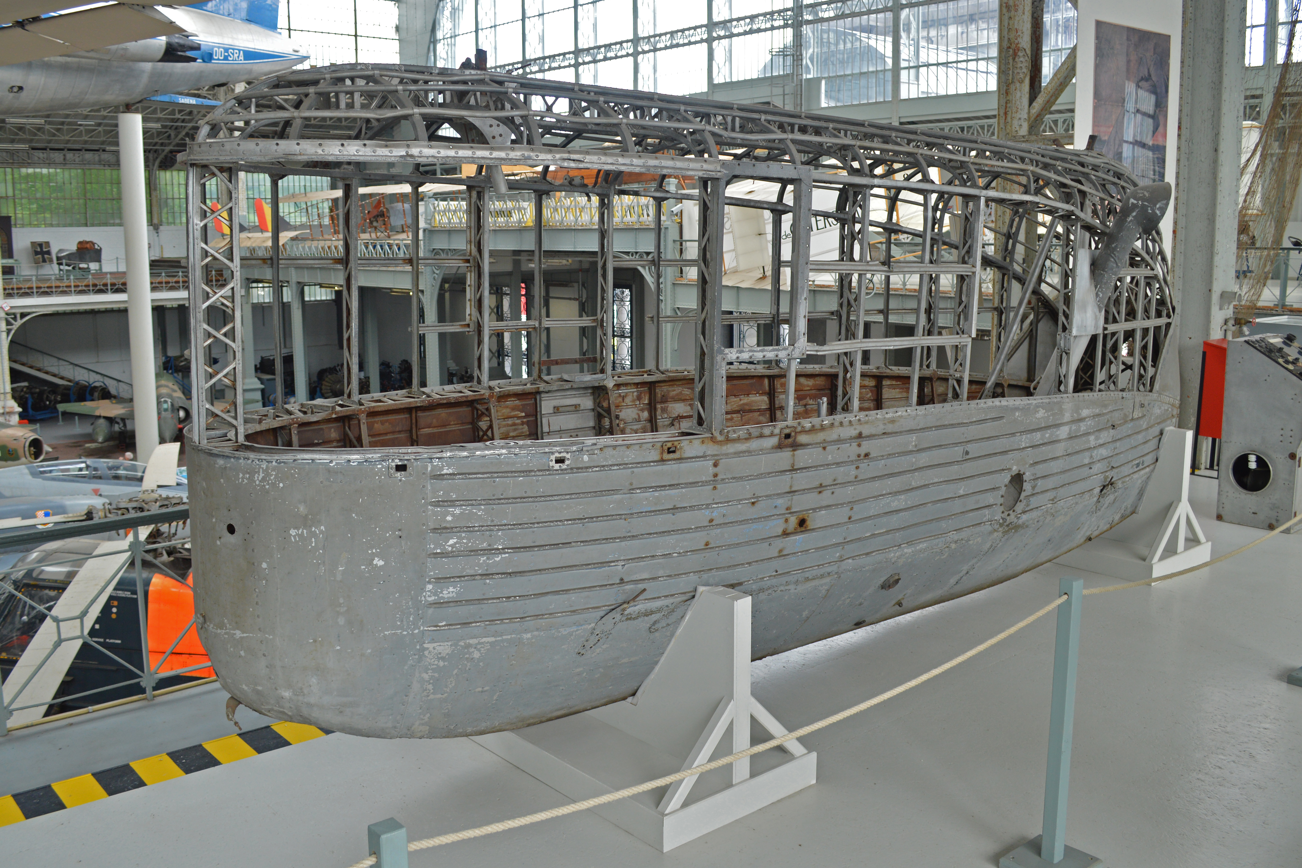 c/n LZ62. L-30 was the first ‘R-Class’ built and entered service in May 1916. She became the most successful airship of World War 1, carrying out 31 reconnaissance flights and 10 bombing missions. She was also the fastest airship of the war, being able to reach 64mph. After the war she was handed to Belgium as war reparations, but could not enter service as Begium had no suitable hangars or crew so was broken up instead. Two gondolas and other parts were saved and remain on display at what is known as the Brussels Air Museum, although it is actually the Air and Space Section of the Royal Museum of the Armed Forces and Military History. Brussels, Belgium. 26th June 2016